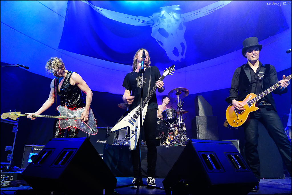 D-A-D, live Madrid 11/04/2014